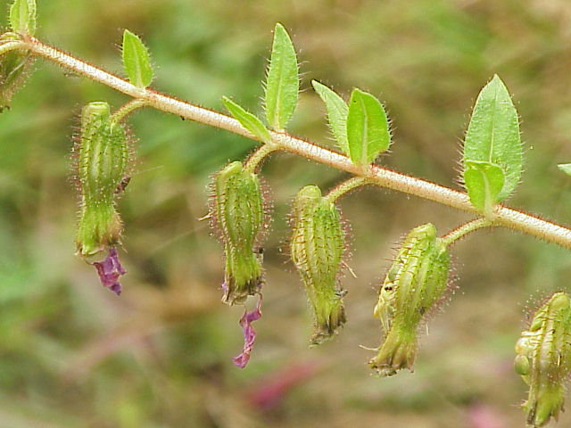 Species: Cuphea procumbens Family: Lythraceae Image No. 1